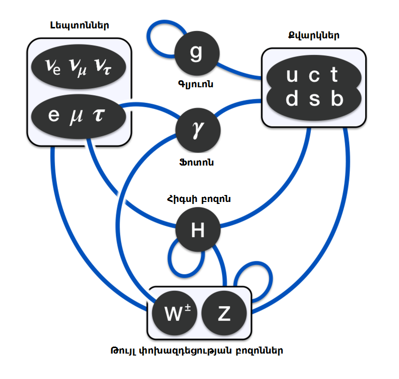 A diagram summarizing interactions between elementary particles according to the Standard Model. Vertices (dark ovals) represent types of particles, and edges (blue arcs) represent interactions between them. Multiple generations of types of particle (leptons, quarks) share an oval. An arc that links to a box is equivalent to a set of arcs that link to every oval in the box; this clarifies patterns and avoids clutter. The top row (leptons and quarks) are the matter particles; a second tier of vertices (photon, W/Z, gluons) are the force-mediating particles; and the Higgs boson is placed at the bottom.